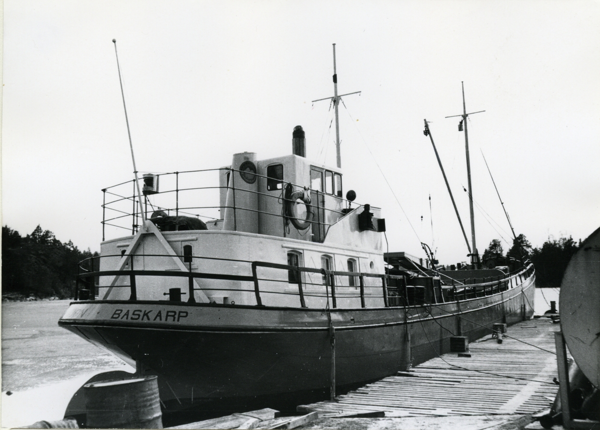 M/S Björn, freight vessel of AB Baskarp-Sand, 1916